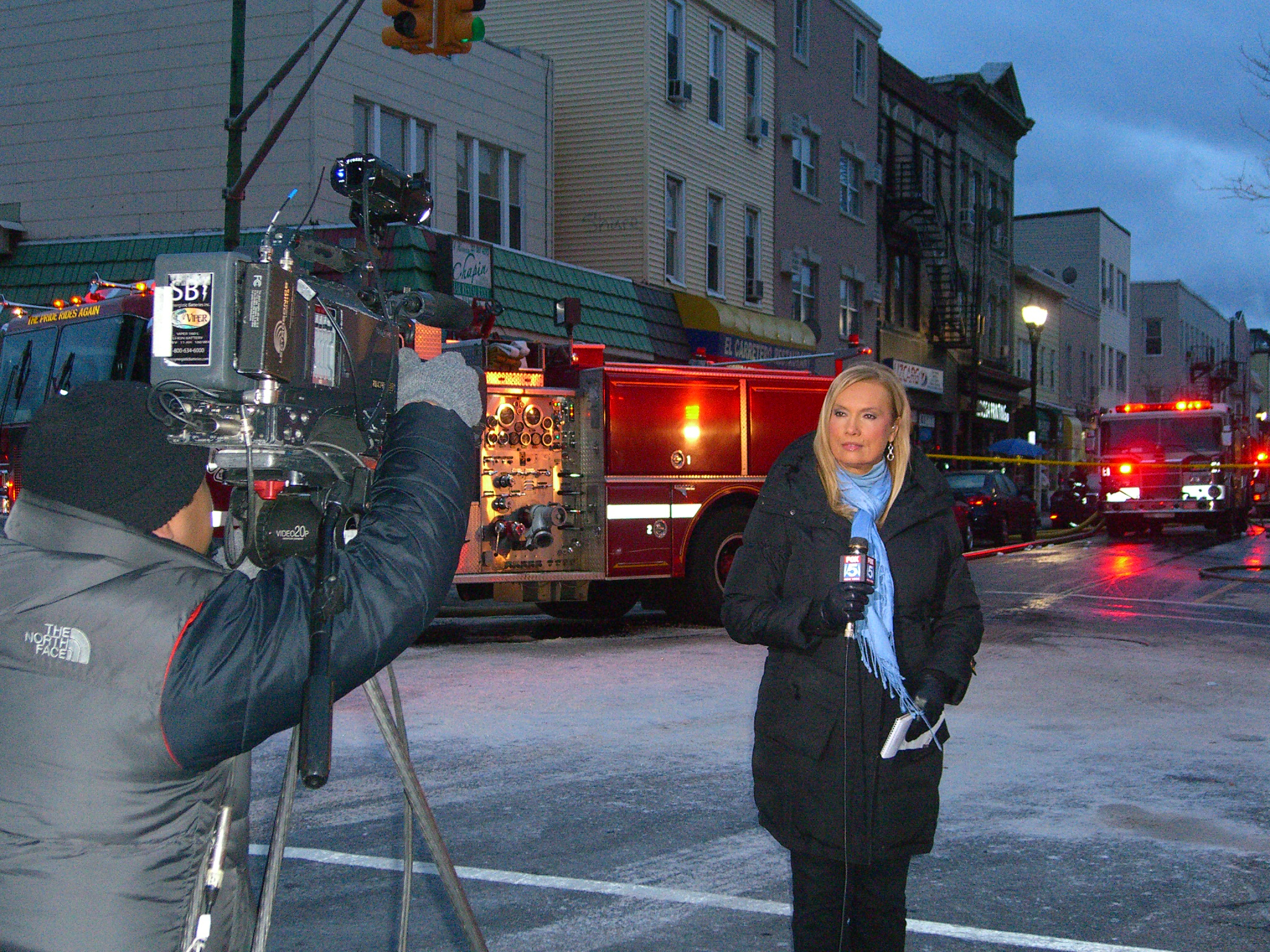 WNYW Fox 5 News reporter Lisa Evers reports at the scene of a fire on Bergenline Avenue between 21st and 22nd Streets in Union City, New Jersey in the early evening of January 19, 2012. The fire, which started around 9pm the previous evening, was not brought under control until 4am on January 19, and resulted in damage to six buildings, the death of a 55-year-old man, injuries to six firefighters, and homelessness for 70 people. This photo was created by Luigi Novi. It is not in the public domain, and use of this file outside of the licensing terms is a copyright violation.